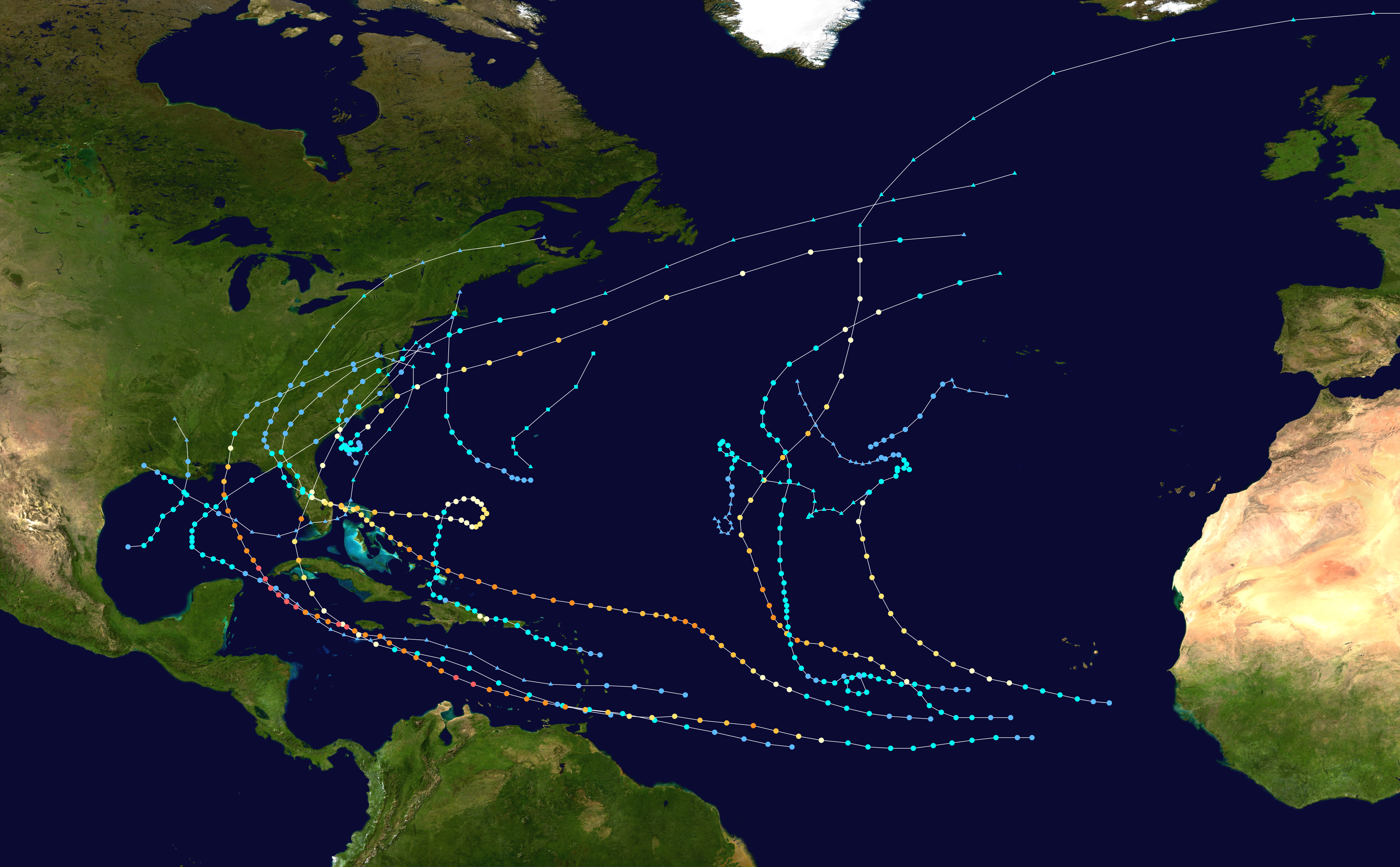 This map shows the tracks of all tropical cyclones in the 2004 Atlantic hurricane season. The points show the location of each storm at 6-hour intervals. The colour represents the storm's maximum sustained wind speeds as classified in the Saffir-Simpson Hurricane Scale (see below), and the shape of the data points represent the type of the storm. Saffir–Simpson scale Tropical depression≤38 mph≤62 km/h Category 3111–129 mph178–208 km/h Tropical storm39–73 mph63–118 km/h Category 4130–156 mph209–251 km/h Category 174–95 mph119–153 km/h Category 5≥157 mph≥252 km/h Category 296–110 mph154–177 km/h Unknown Storm type Tropical cyclone Subtropical cyclone Extratropical cyclone / Remnant low / Tropical disturbance / Monsoon depression